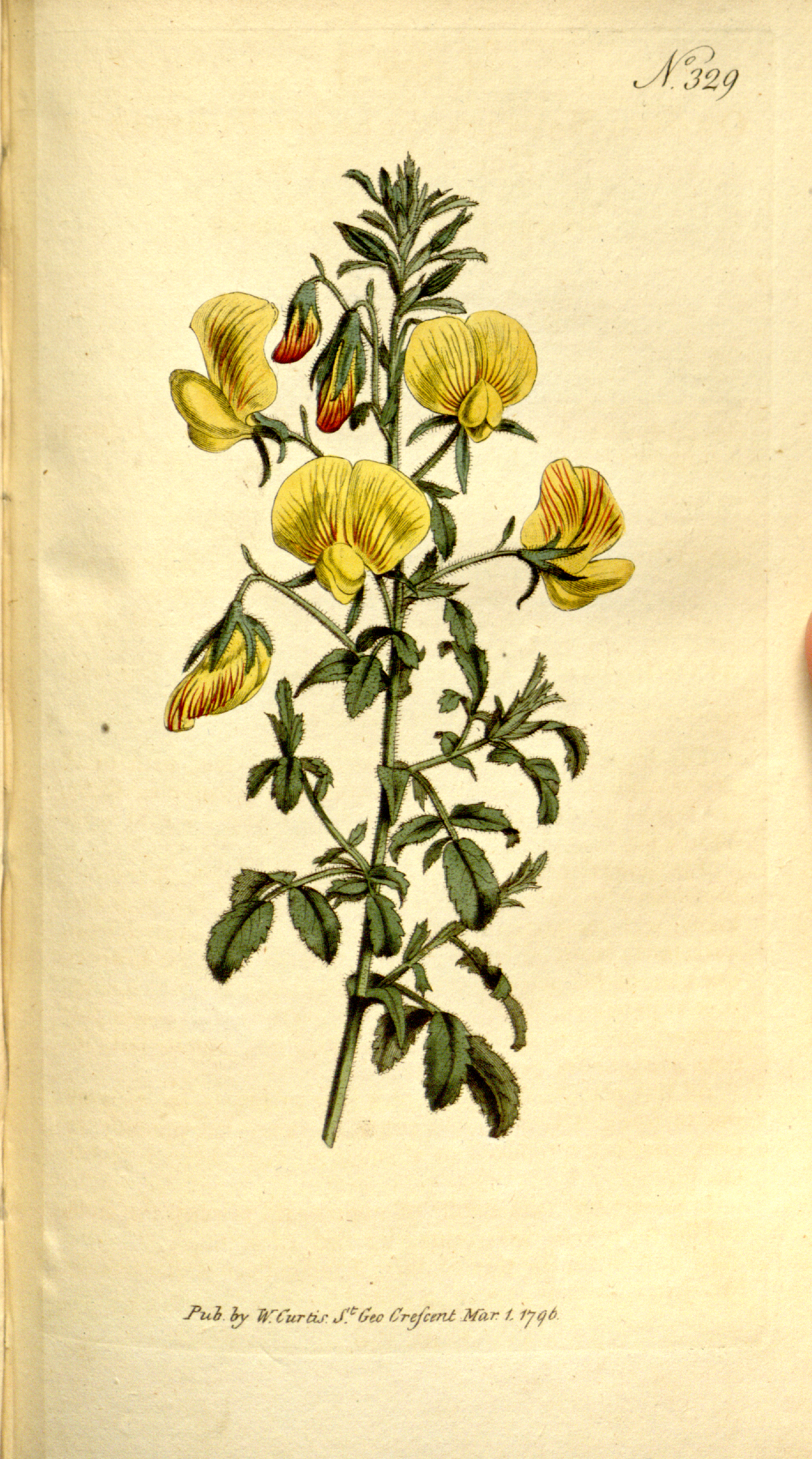 This is a plate from The Botanical Magazine, Volume 10.